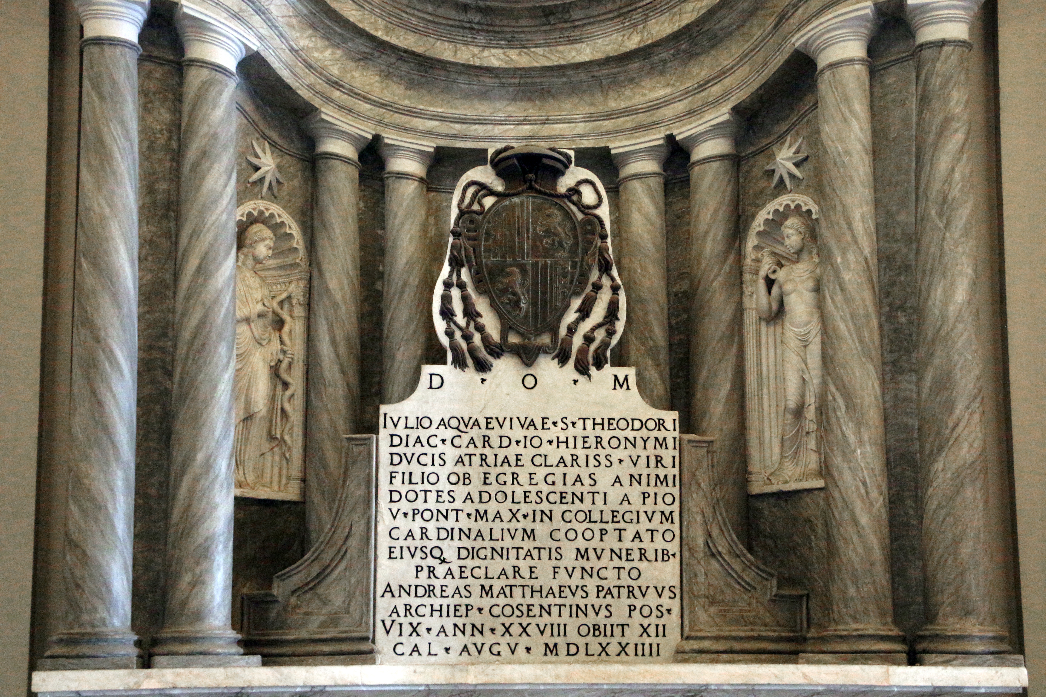 San Giovanni in Laterano (Rome) - Interior